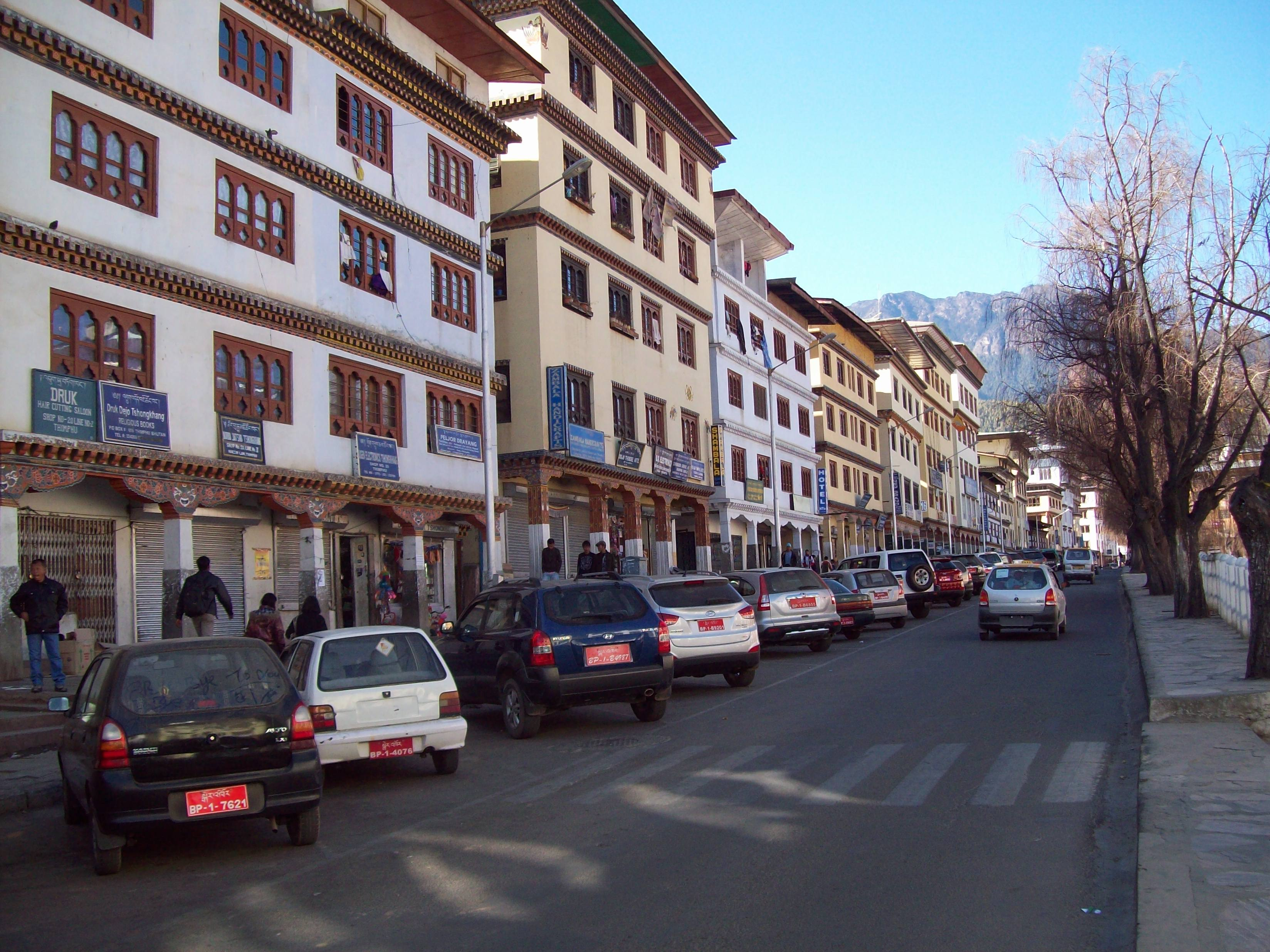 A main road in Thimphu. (Nordzin Lam above Clock-tower Square looking north)